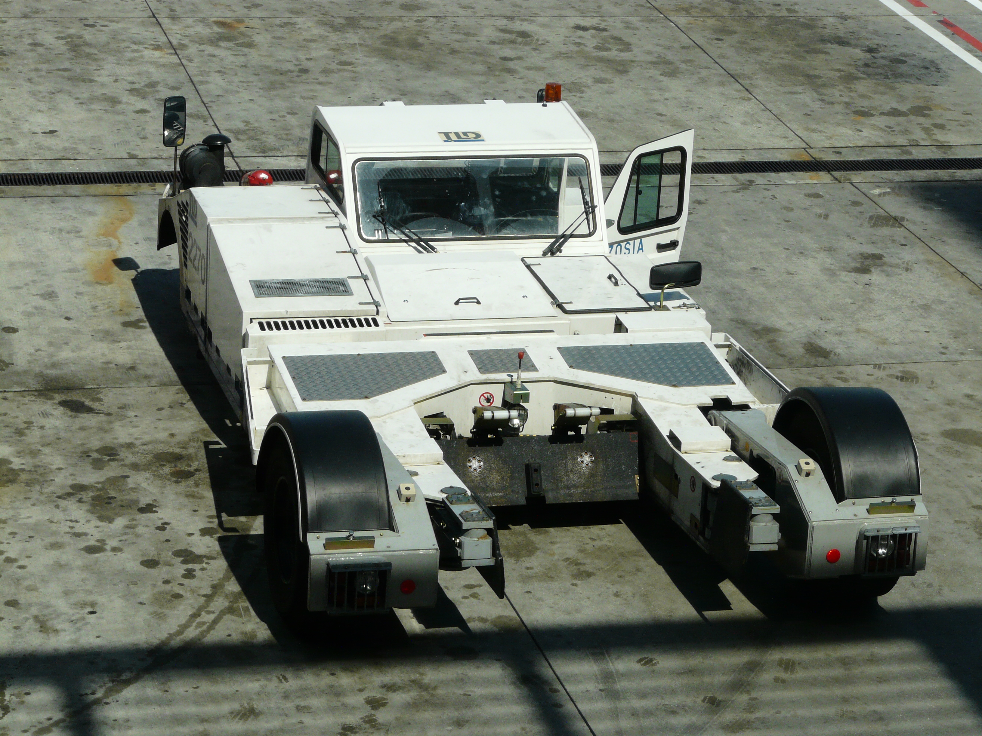 Warsaw Frederic Chopin Airport